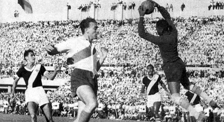 Alfredo Di Stéfano (?) try to attack the Vasco da Gama goal while the goalkeeper catches the ball.